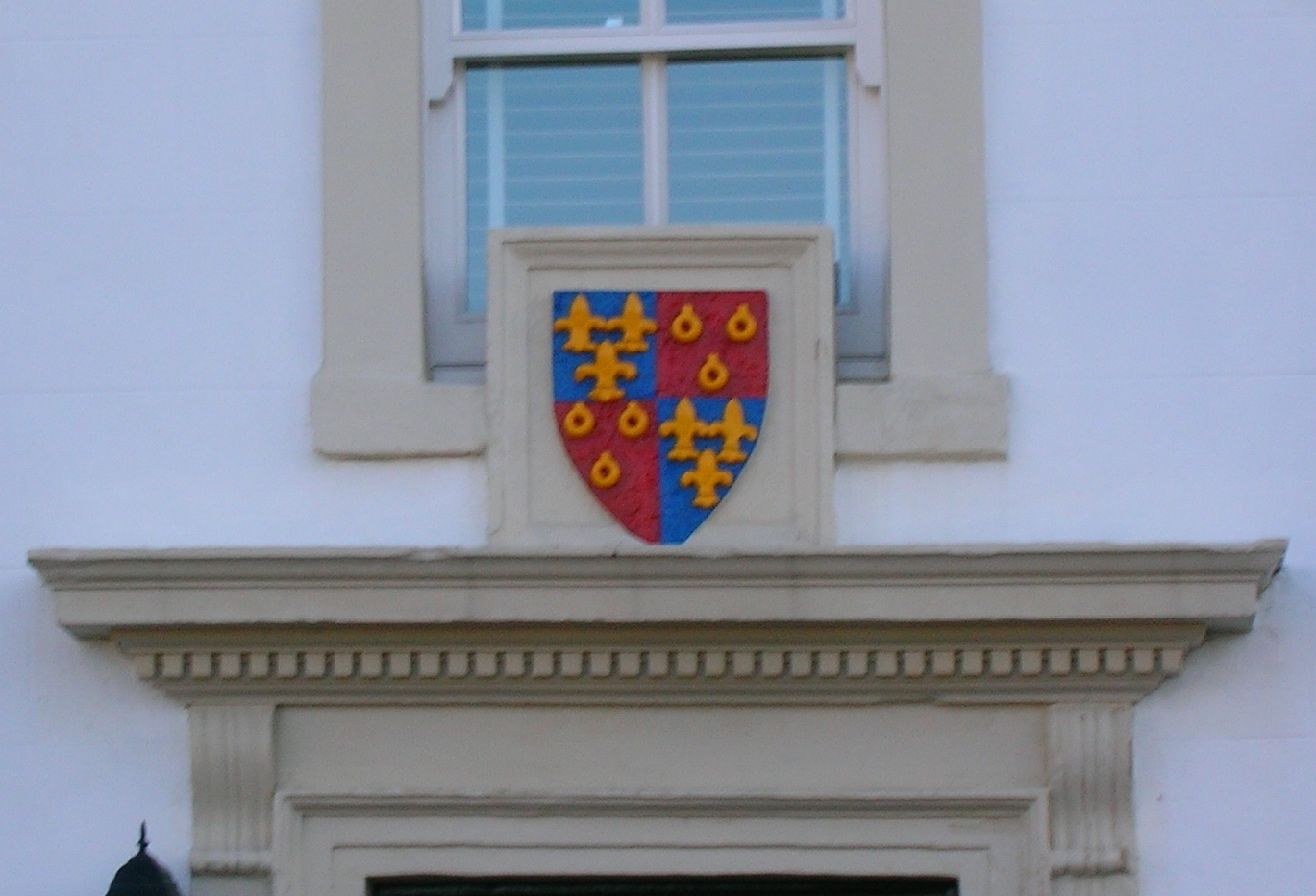 Montgomerie coat of arms at Cross Keys House, Eaglesham, Renfrewshire, Scotland.